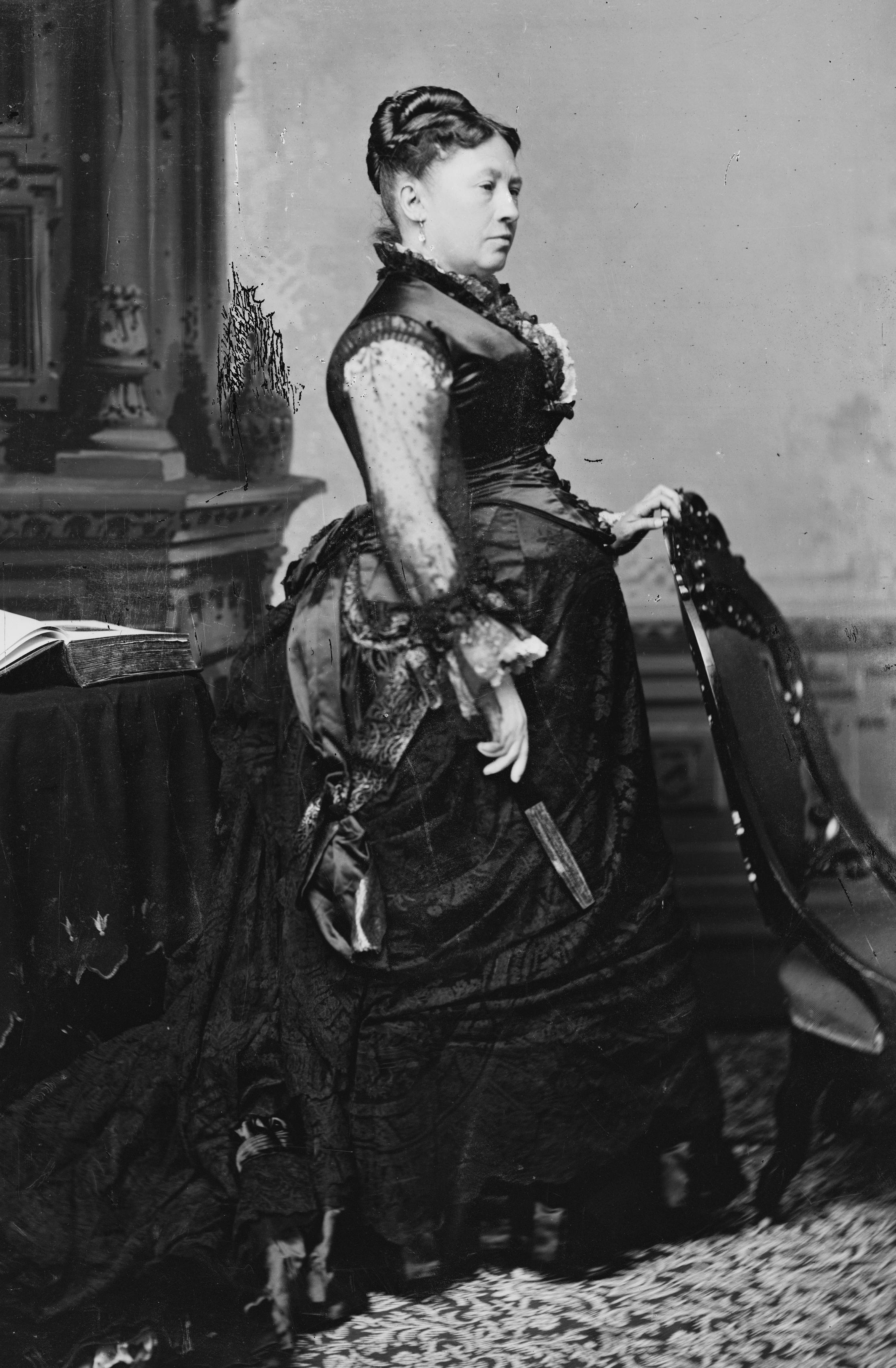 Julia Grant. Library of Congress description: "Grant, Mrs. U.S. (Julia Dent)"